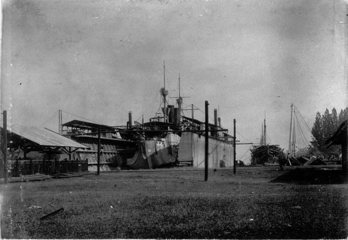 Royal Navy armoured deck corvette in dry dock